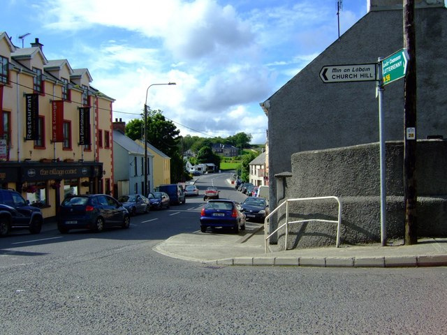 Centre of Kilamcrenan Village The village had a population of 430 in the 2002 census, however the village's population has increased steadily over the last decade with many new housing developments and overspill of the population in Letterkenny.